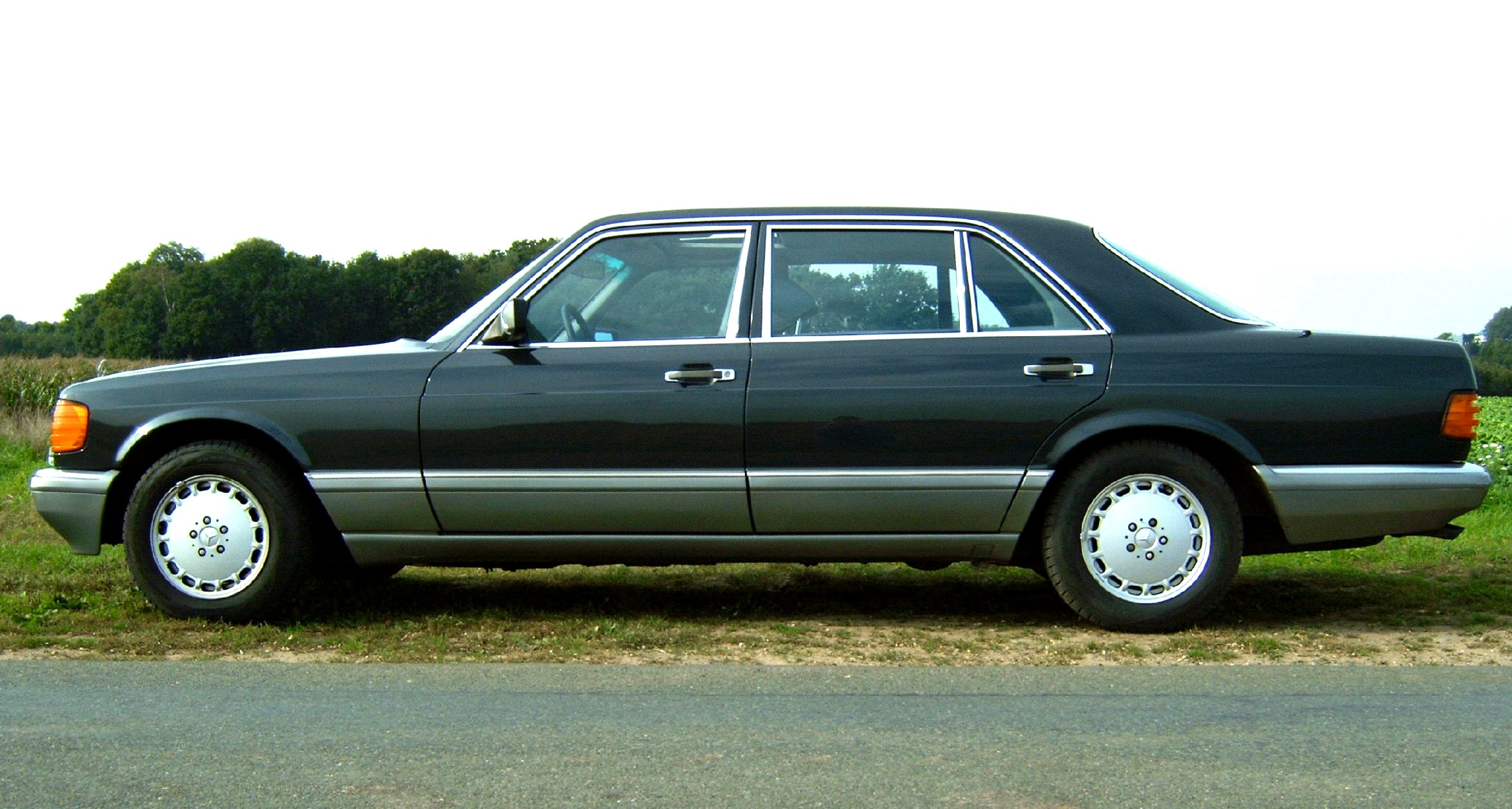 Mercedes-Benz W126 500SEL photographed in Germany.